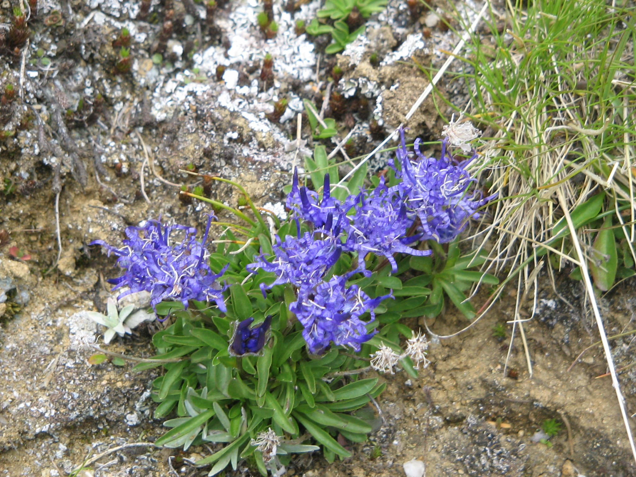 Phyteuma globulariifolium subsp. pedemontanum